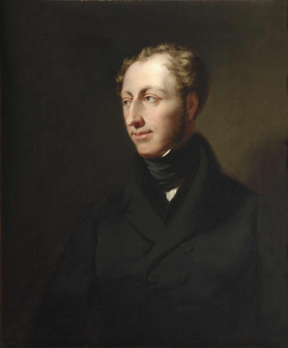 Portrait of Archibald Simpson, Architect of Aberdeen (1790 -1847) by James Giles RSA (1801 -1870)